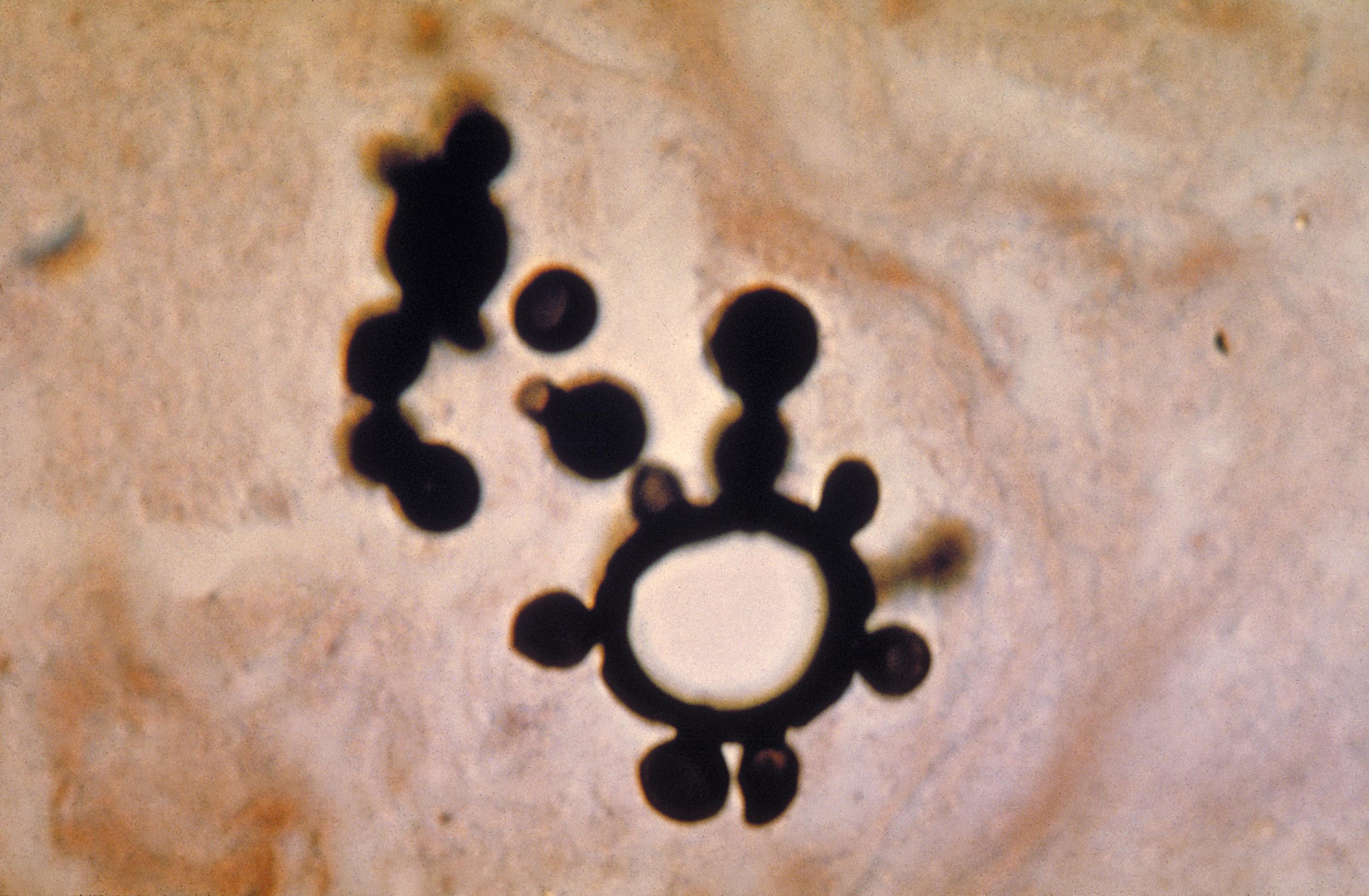 Histopathology of paracoccidioidomycosis. Methenamine silver stain. Histopathology of paracoccidioidomycosis. Budding cells of Paracoccidioides brasiliensis. Methenamine silver stain.